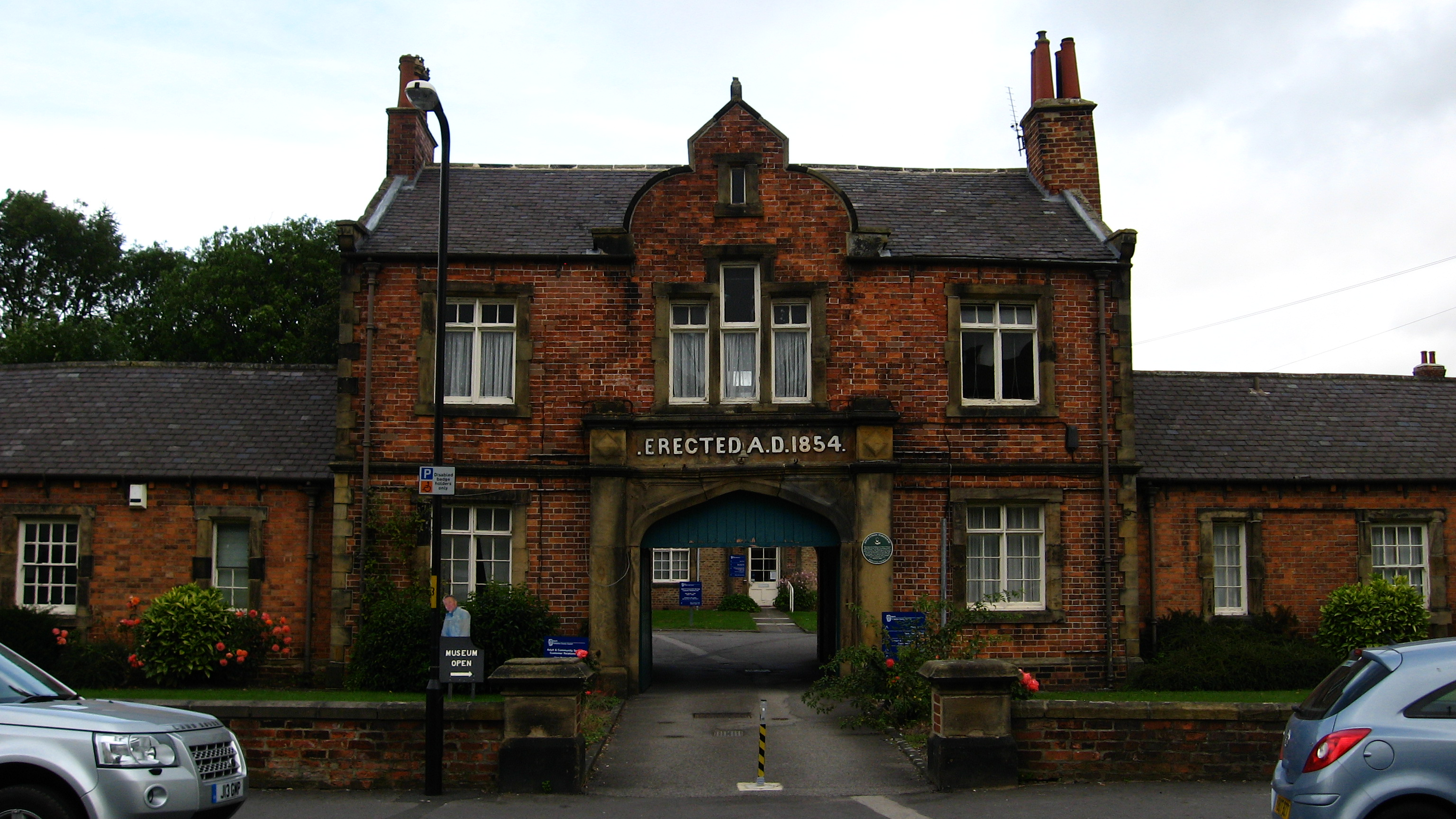 Former workhouse, now a museum and county council offices